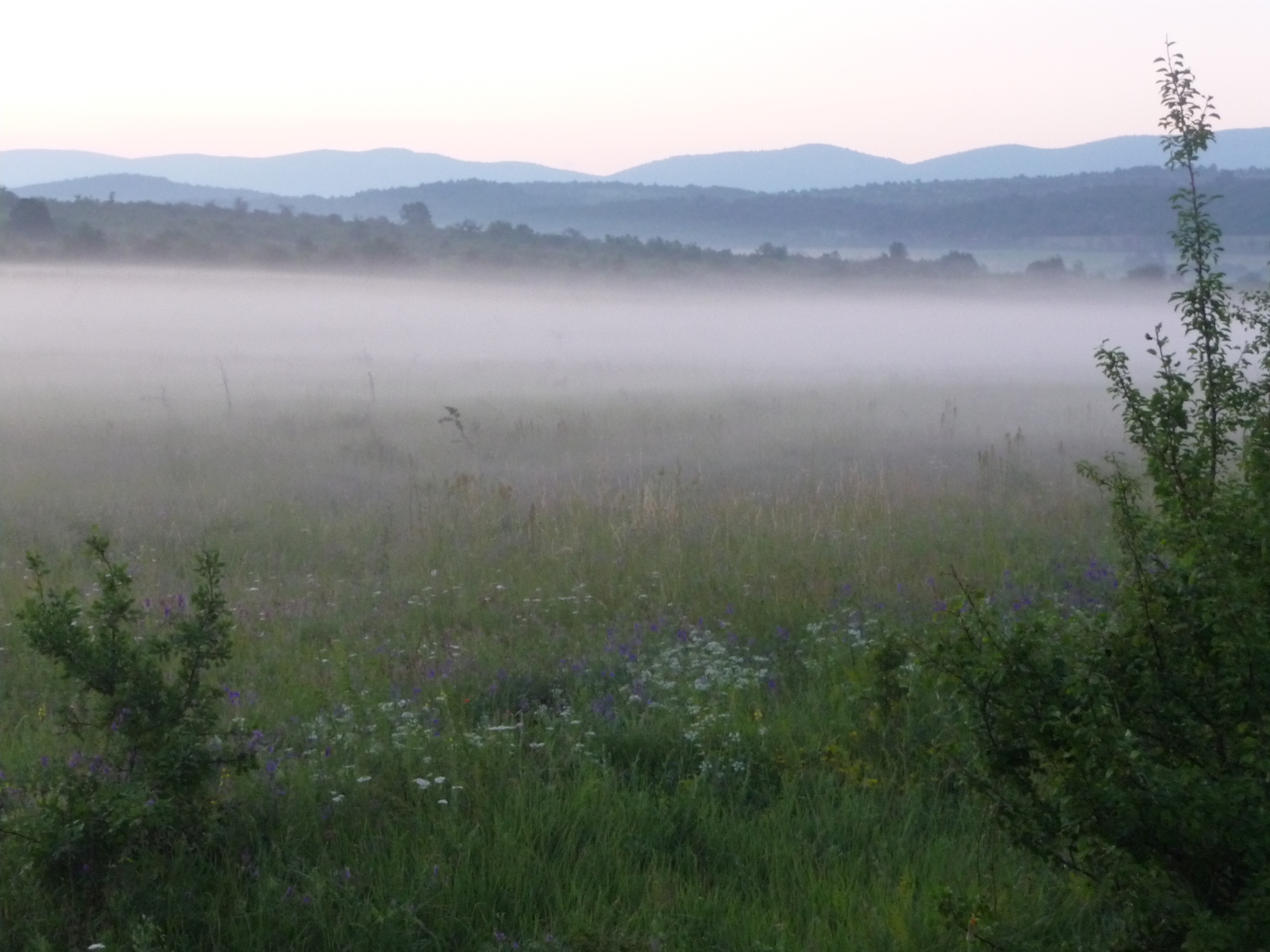 Vidlich ridge - a view from the west part of Cheparlyantzi village territory (near the Bulgarian - Serbian border).